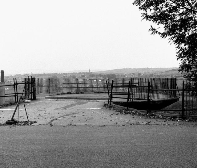 Former trolleybus turntable, Longwood, near Huddersfield